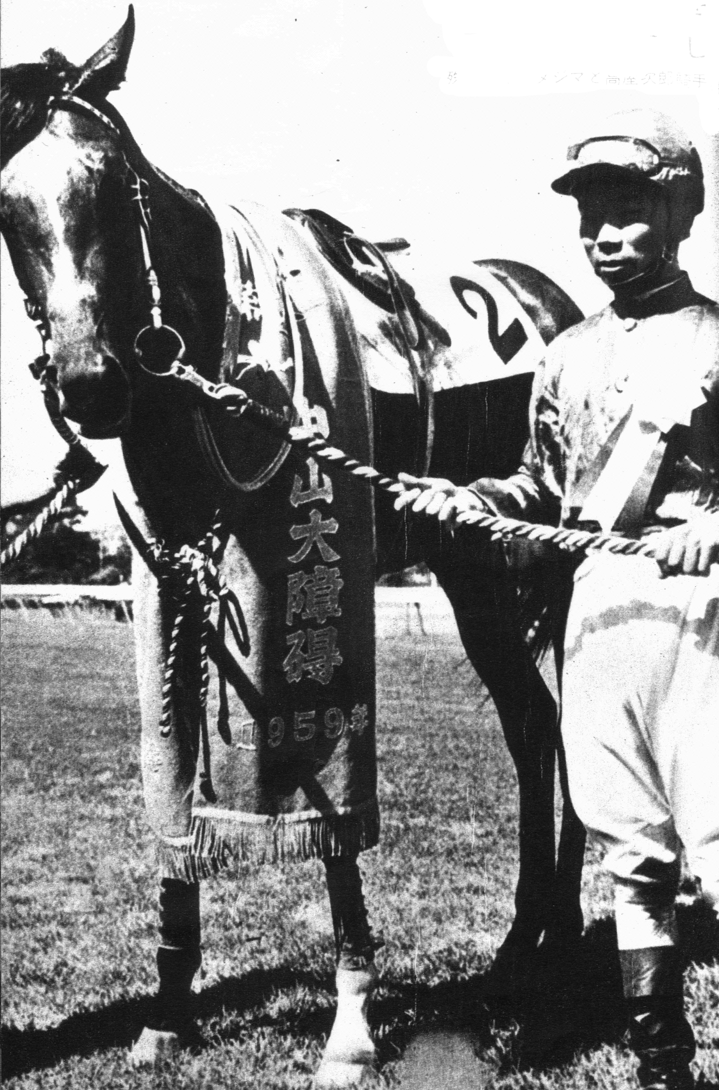 O Tajima(horse)